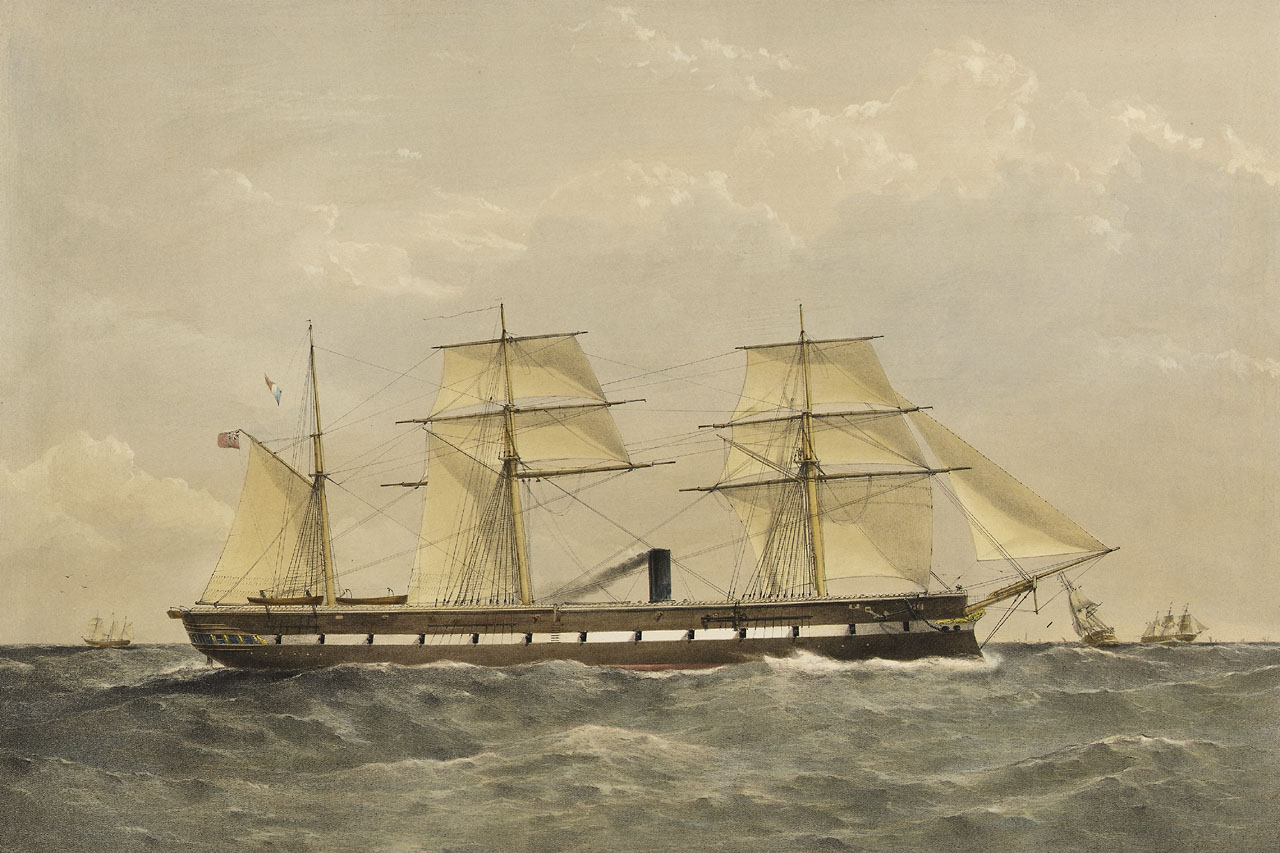 Her Majesty's Iron Cased Screw Steam Frigate Resistance The 6,070 tons vessel was built at Westwood, Baillie, Campbell & Cos London Yard on the Isle of Dogs. She was 280 feet long, with ram bows, and was armed with 18 guns. Powered by both steam and sail, 'Resistance' cost £237,291 to build. Her Majesty's Iron Cased Screw Steam Frigate Resistance